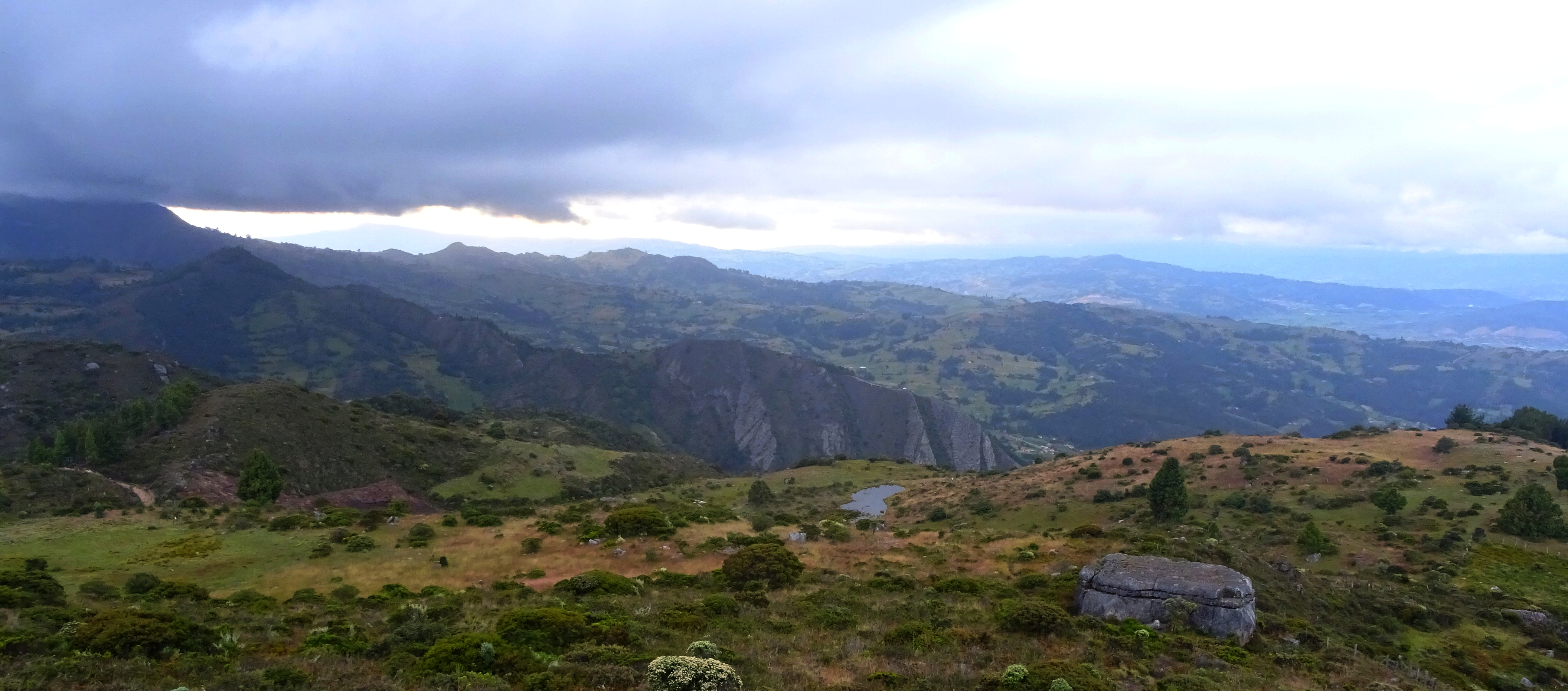 Panorama of the "Caja del Rey" and the "Peña de Otí" on the Páramo de Ocetá, Boyacá, Colombia